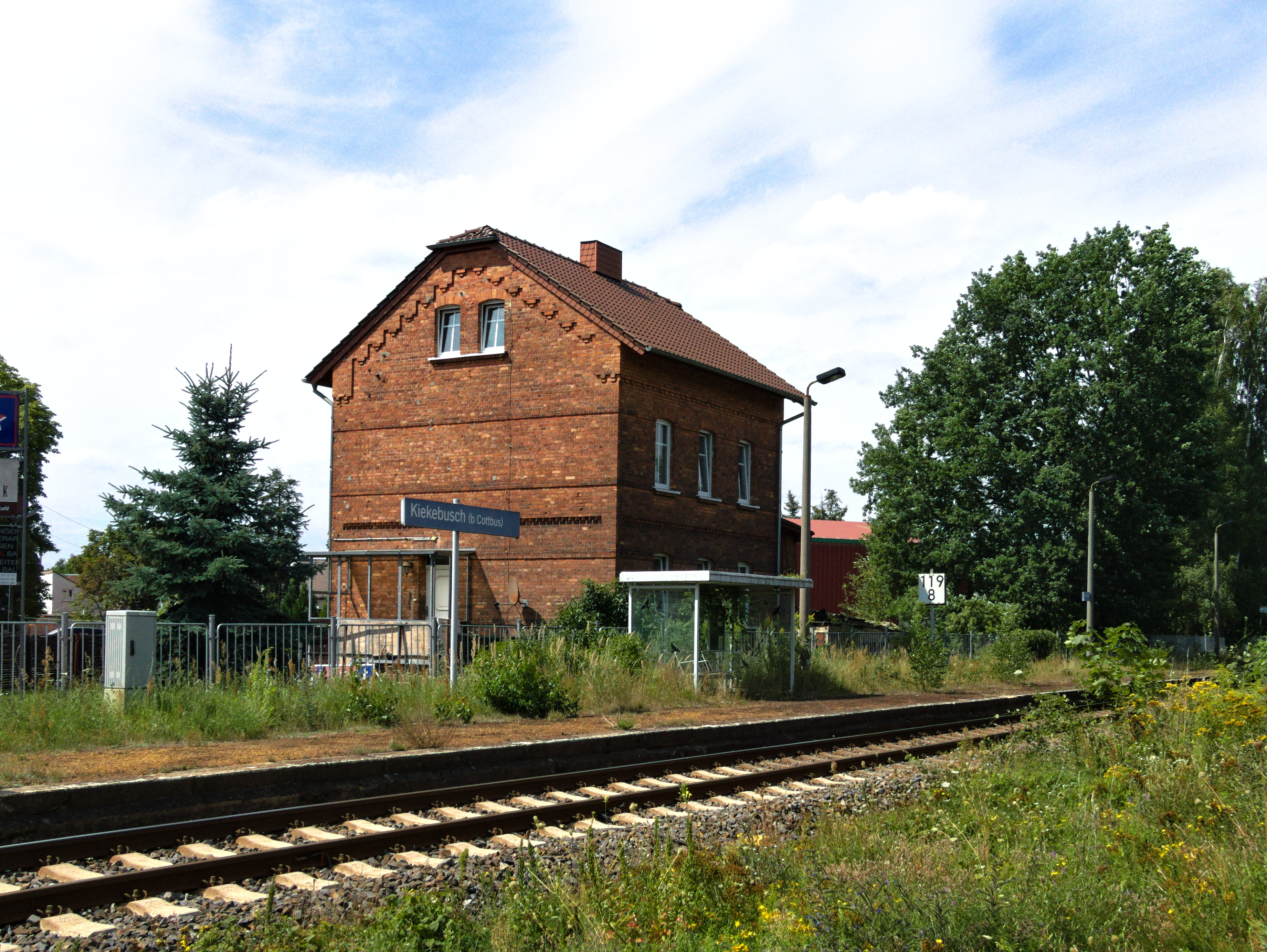 Station building, now a private home, of the former train station "Kiekebusch (b. Cottbus)" which closed in 2006. The sign predates the incorporation of Kiekebusch into Cottbus - if the station were to see service again, it would probably follow the established naming convention and reopen as "Cottbus-Kiekebusch".The Cottbus-Görlitz section of the Berlin-Görlitz railway line remains open to both passenger and freight traffic.